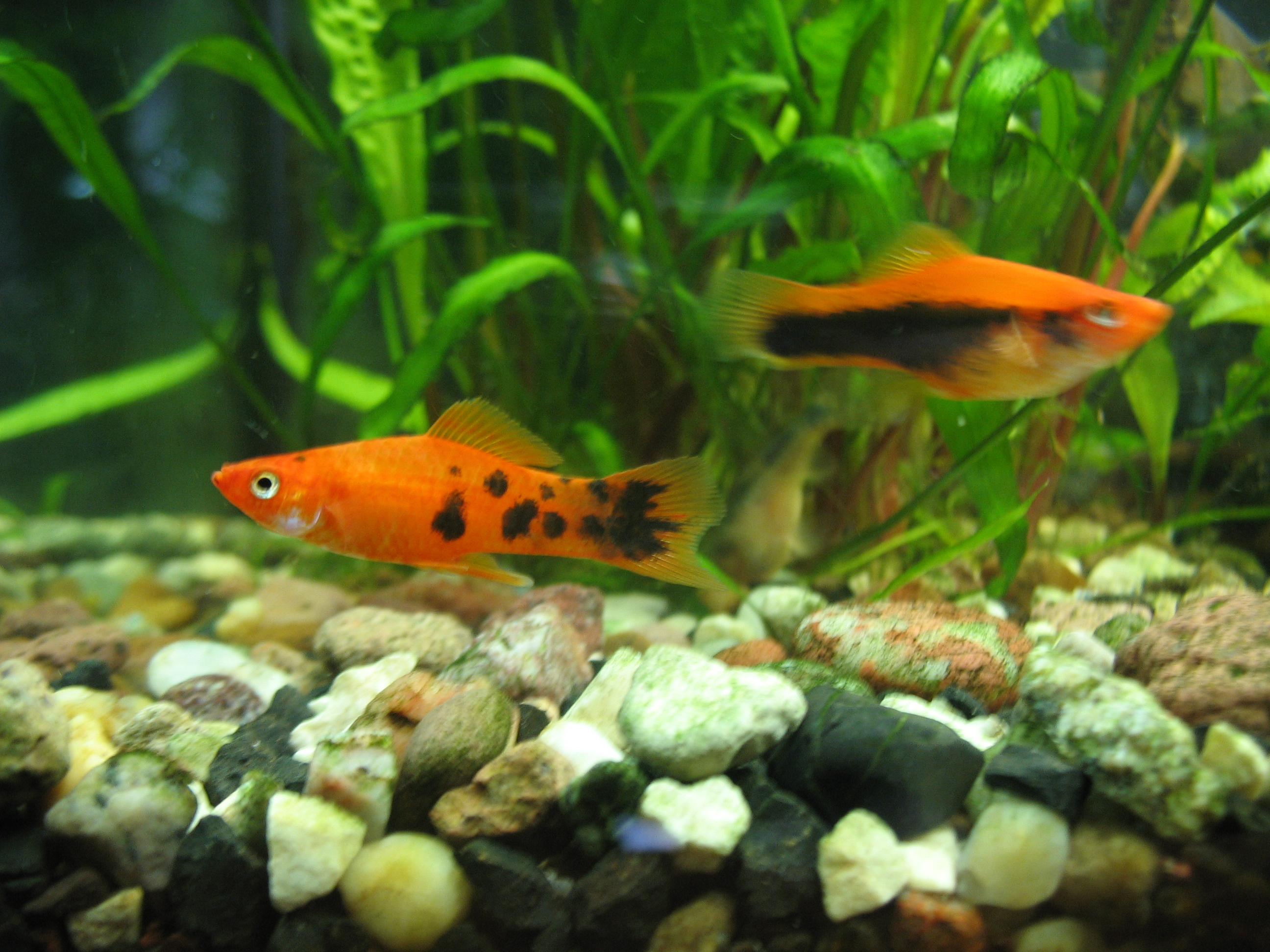 A pair of Green swordtail (Xiphophorus hellerii)